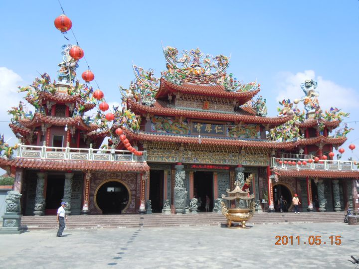 Renhou Temple, Madou District, Tainan.